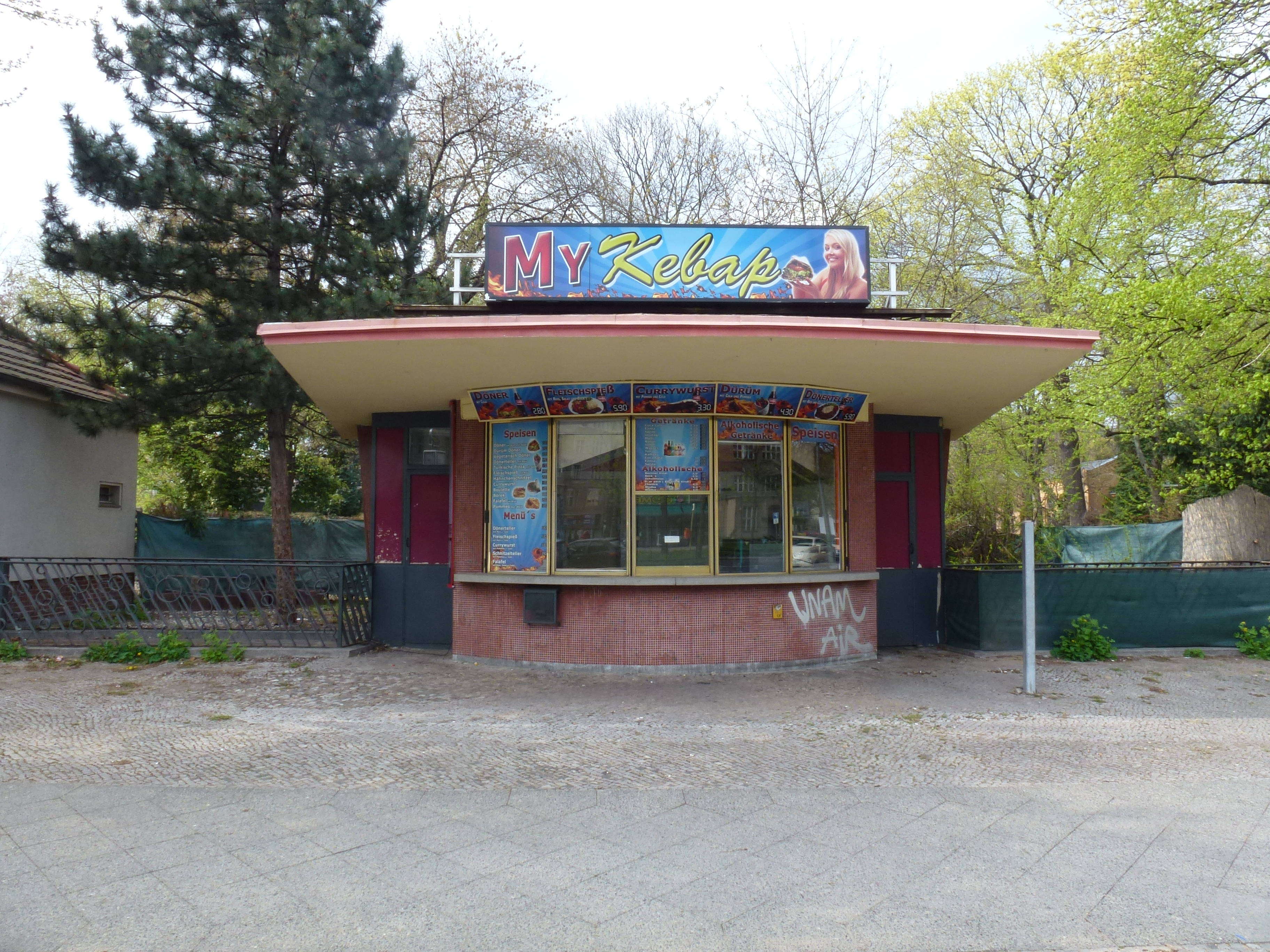 Berlin-Wedding Seestraße Kiosk